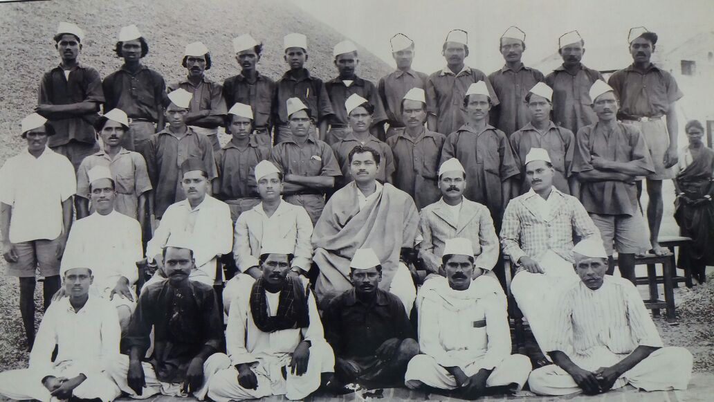 Moola Narayana Swamy at his Textile Mill